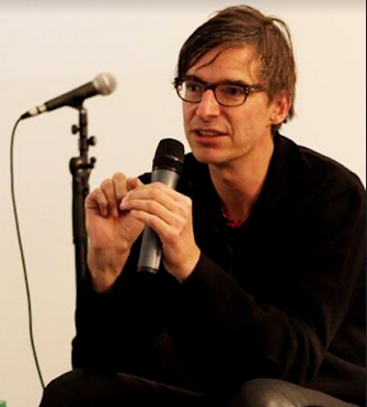 Christian von Borries